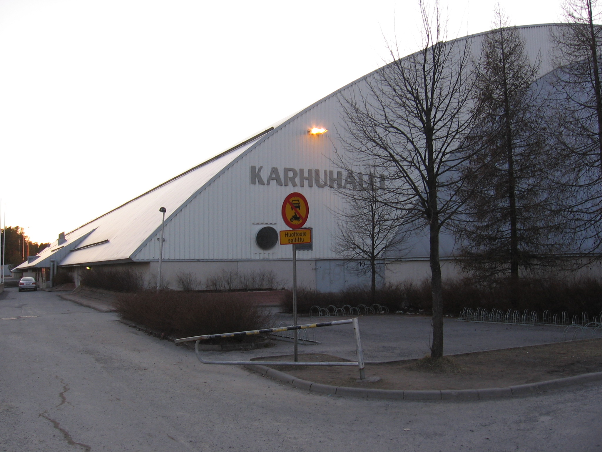 Karhuhalli in Pori